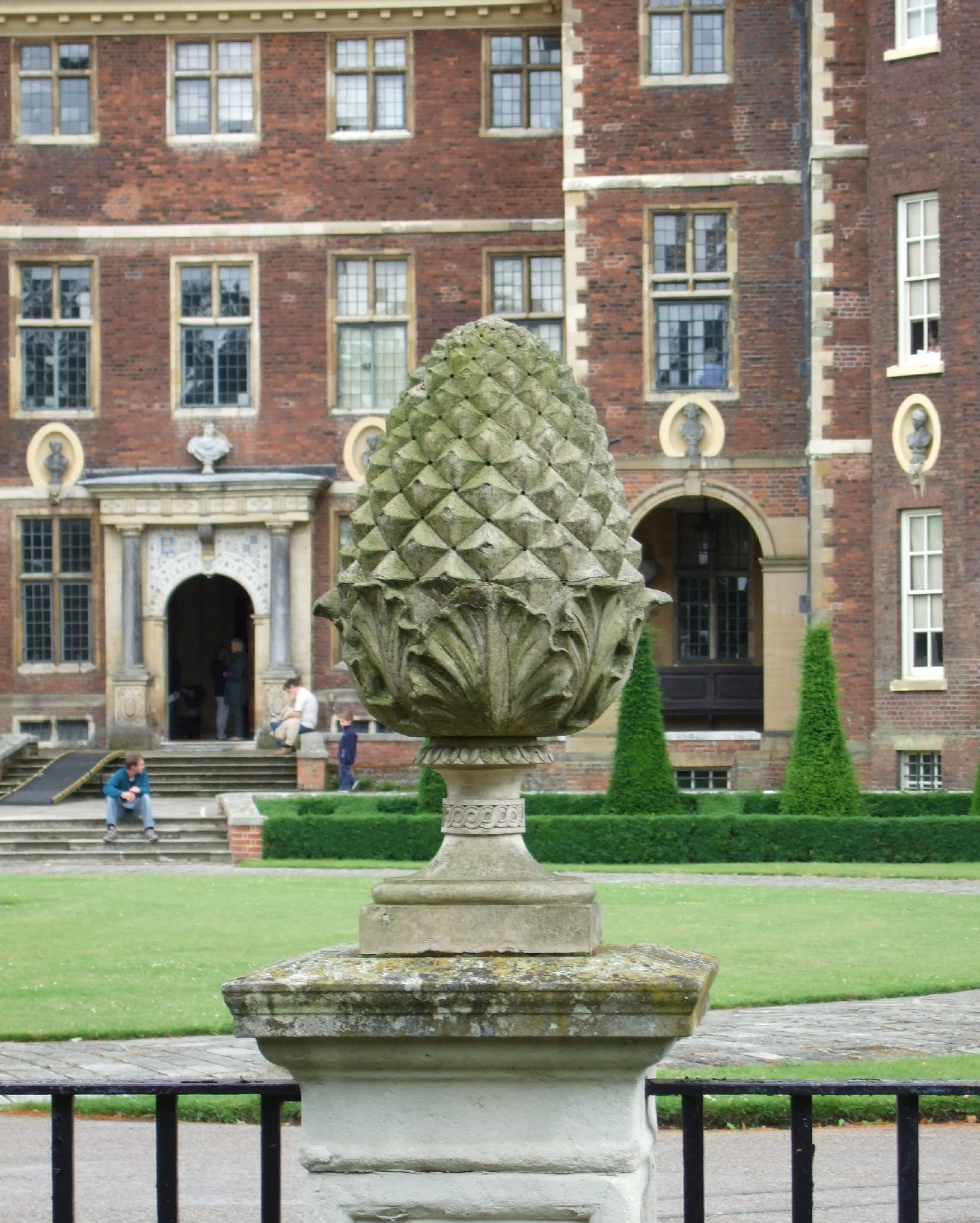 added to Ham house in 1880